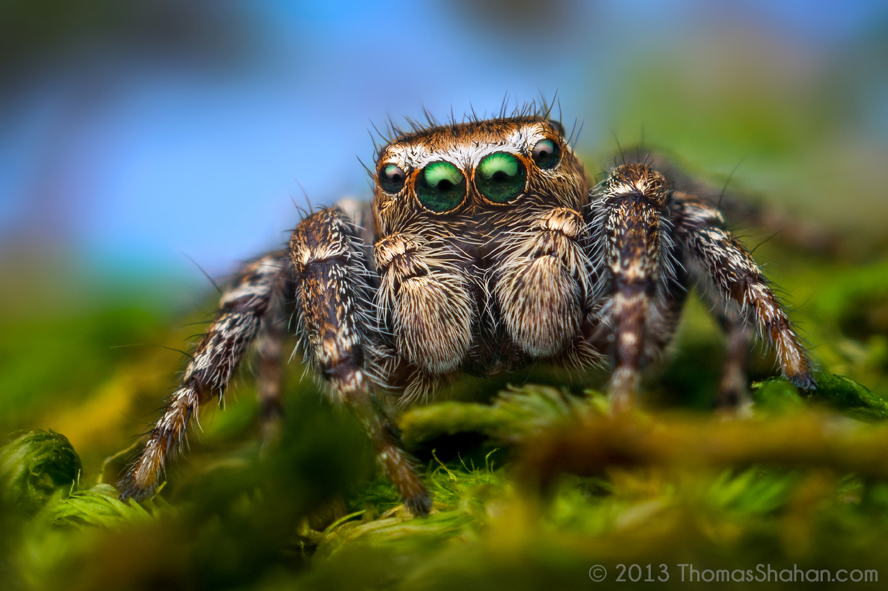 This Evarcha proszynskii male with stunning green eyes AME was found hopping about in a parking lot - shot him atop some moss I collected from his area.